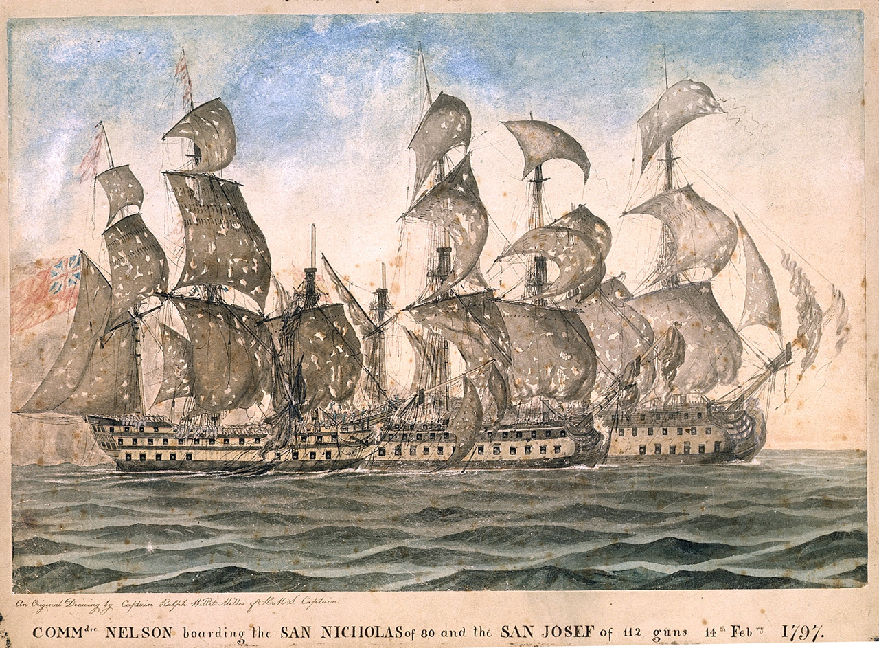 Commdre Nelson boarding the San Nicholas of 80 and the San Josef of 112 14th Febry 1797. Captain at the battle of St Vincent (PAG8949) An original drawing by Captain Ralph Willett Miller of HMS Captain Watercolour by Ralph Willett Miller Sheet: 362 x 539 mm PAG8949 PX8949